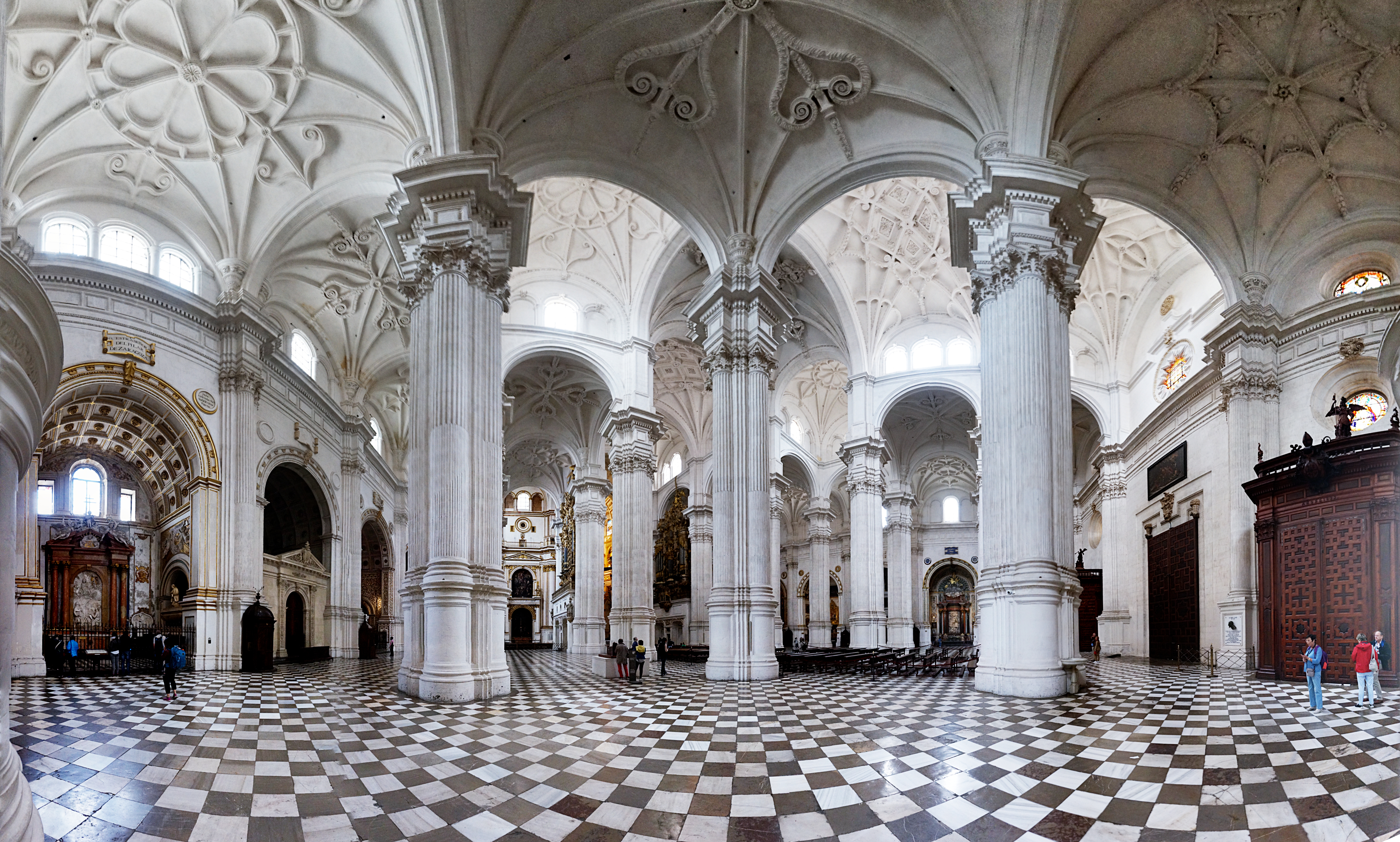 Wide panorama of the main nave of the Granada cathedral.